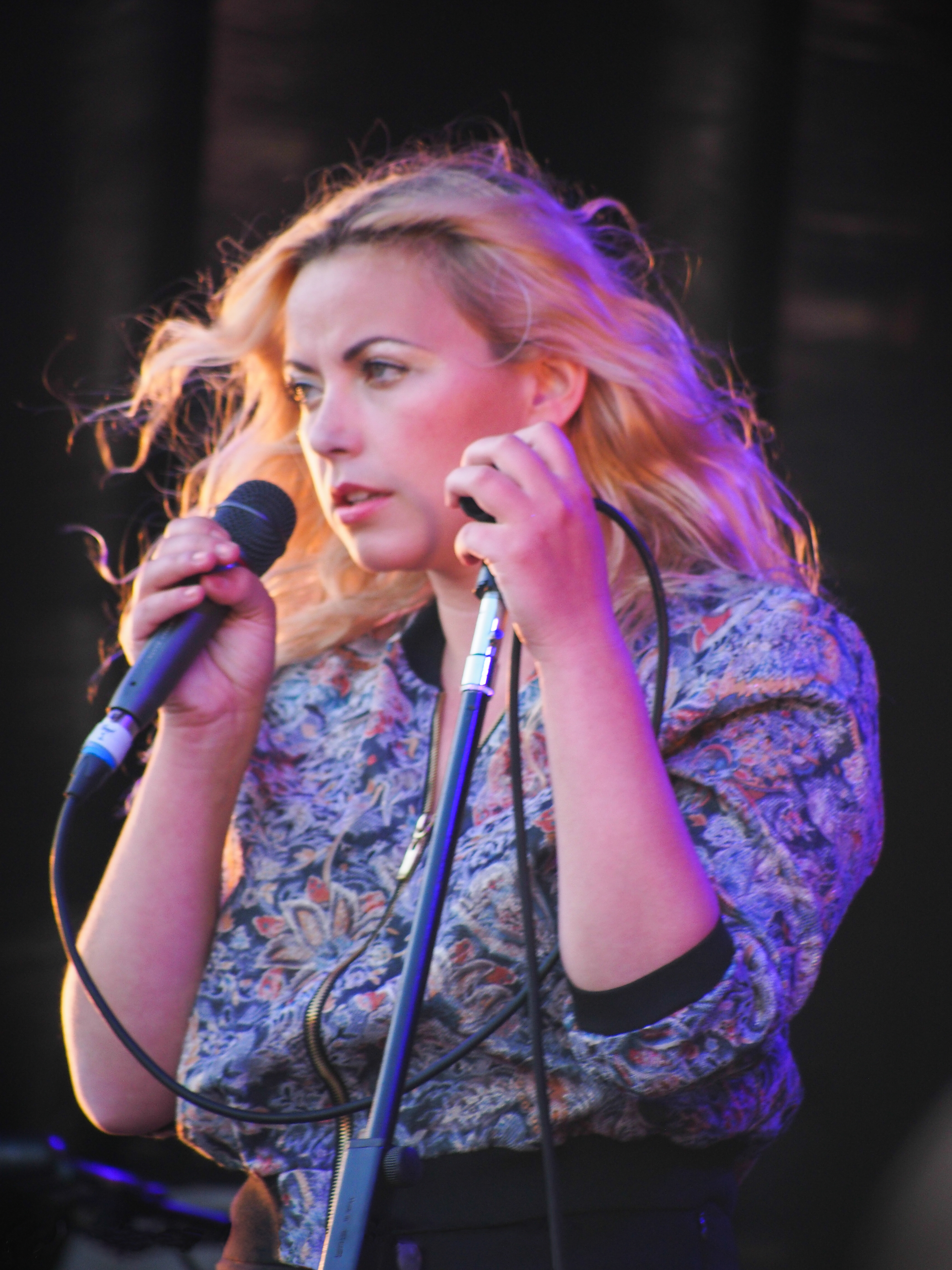 Charlotte Church performing at the Victorious festival at the Portsmouth Historic Dockyard